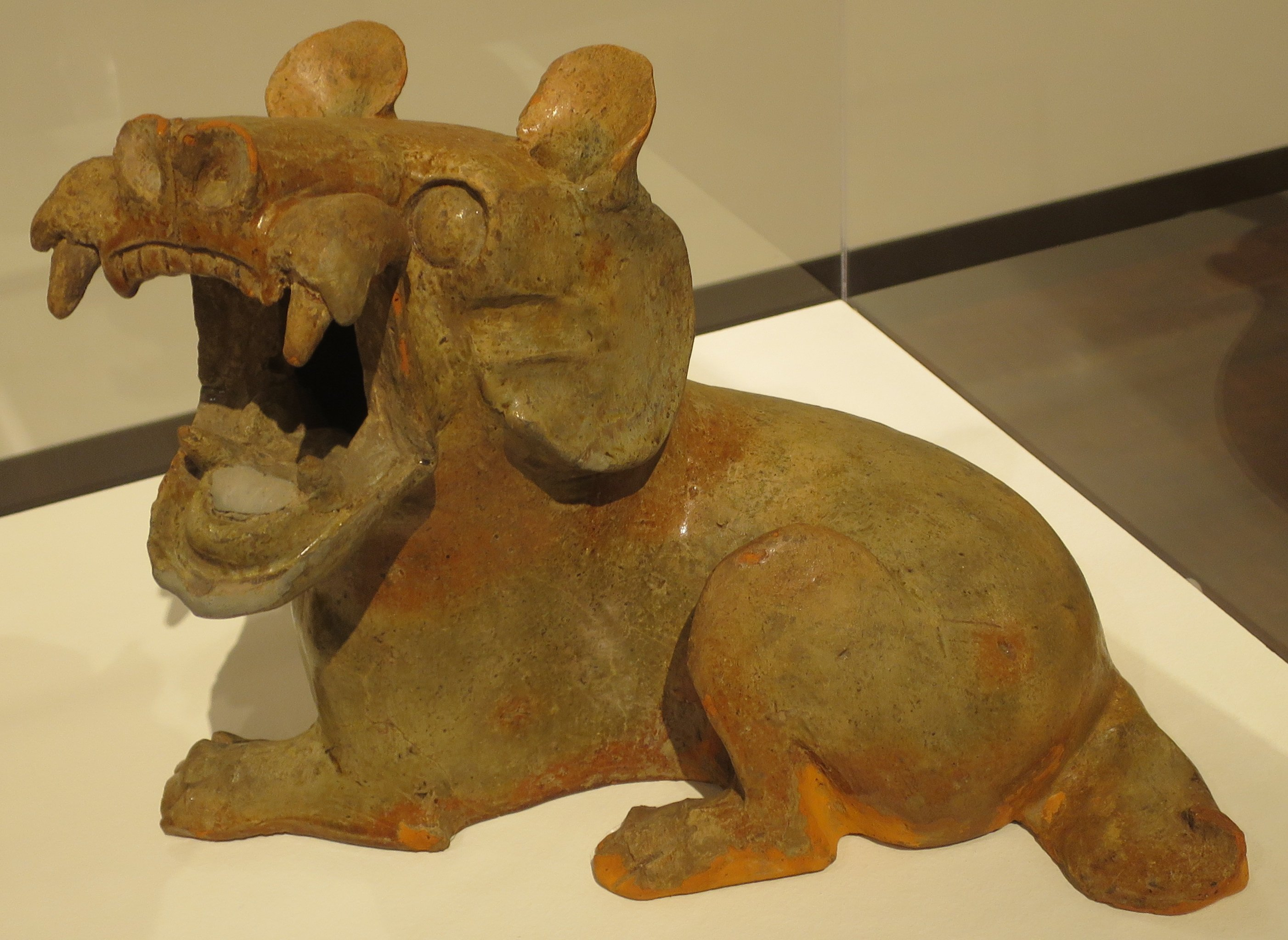 Dog, Han dynasty (206 BCE-220 CE), earthenware with polychrome, Honolulu Museum of Art, accession 1870.1